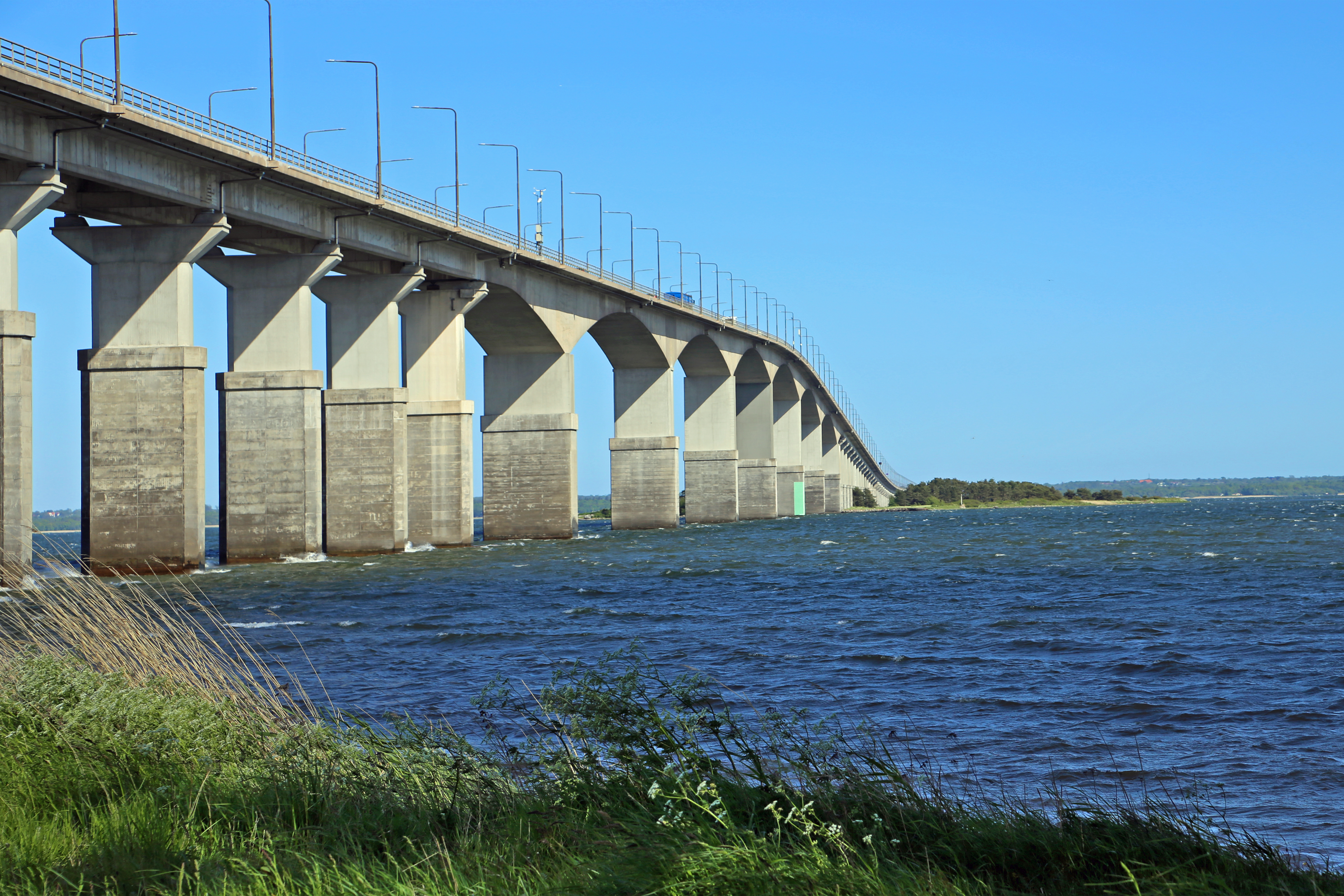 Öland Bridge (Ölandsbron), the 6,072 meter long bridge connects Kalmar with the island of Öland.